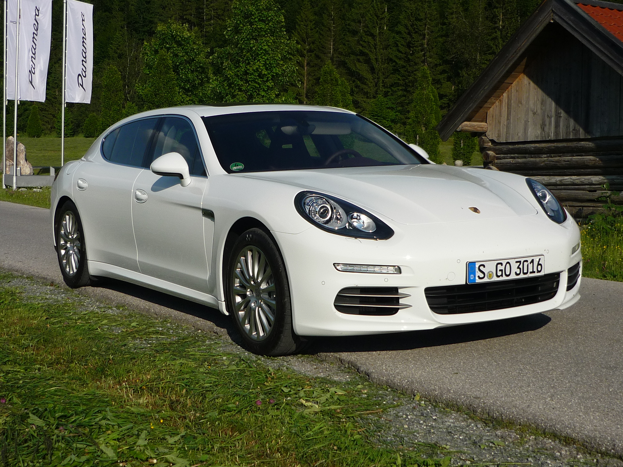 Porsche Panamera (2013 Facelift)